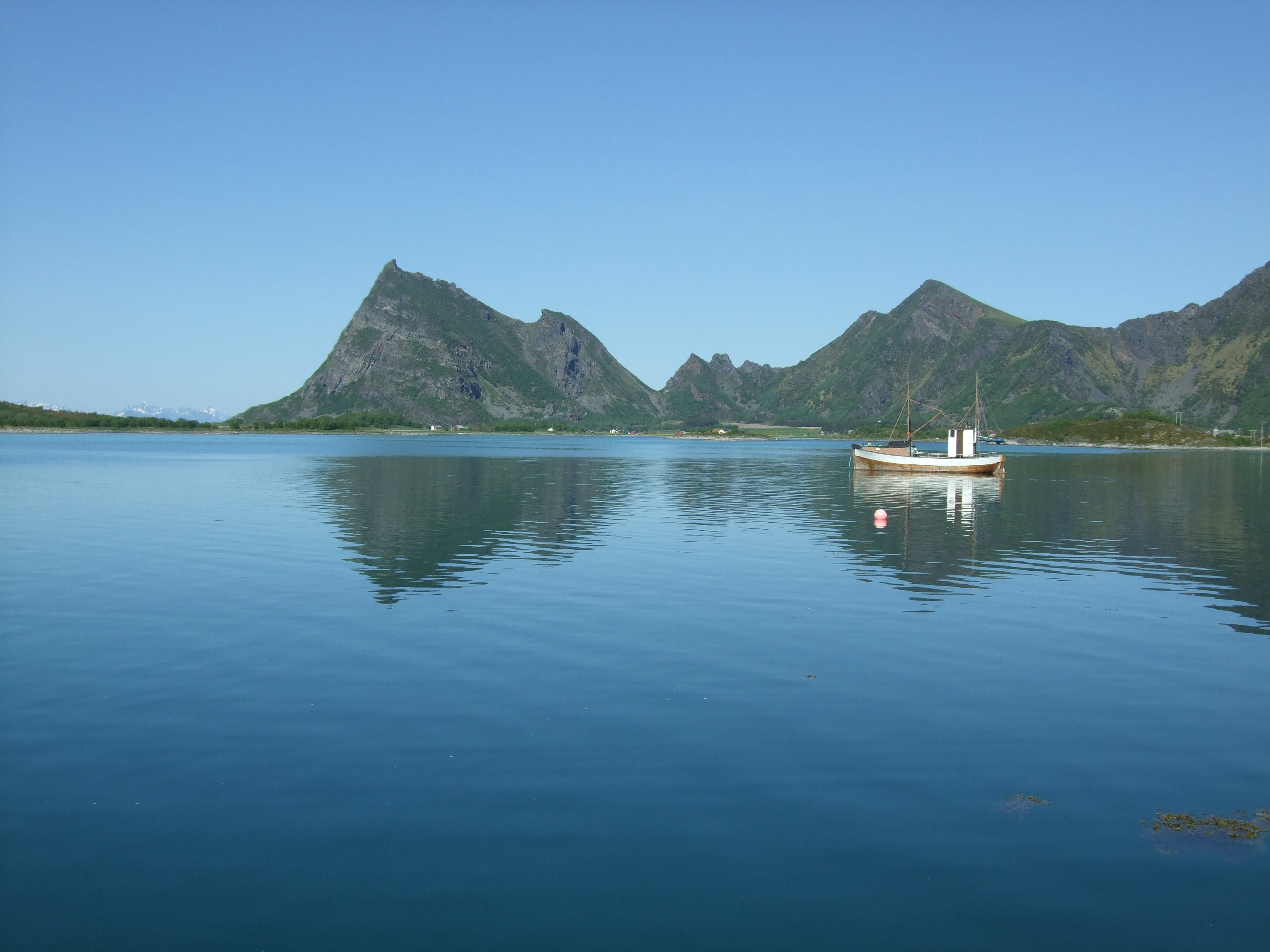 Characteristic mountain formation known as "The profile of Napoleon" on the island Engeløy in Steigen, Nordland, Norway